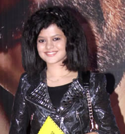 Palak Muchhal at Policegiri charity screening show